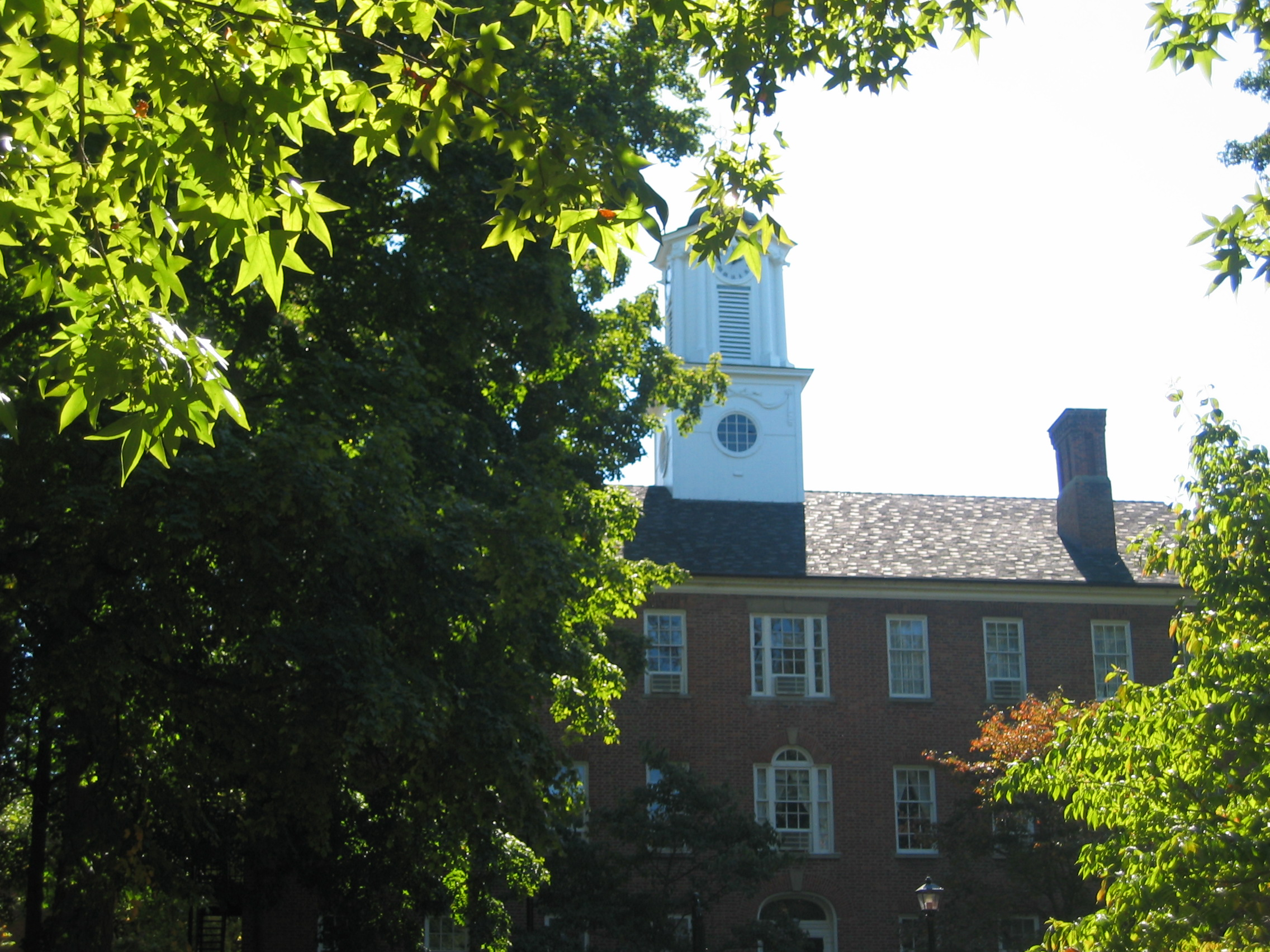 Side of Manasseh Cutler Hall, the oldest building on the campus of Ohio University in Athens, Ohio, United States. Built in 1816, the building is the oldest extant educational structure in the former Northwest Territory. It has been designated a National Historic Landmark.